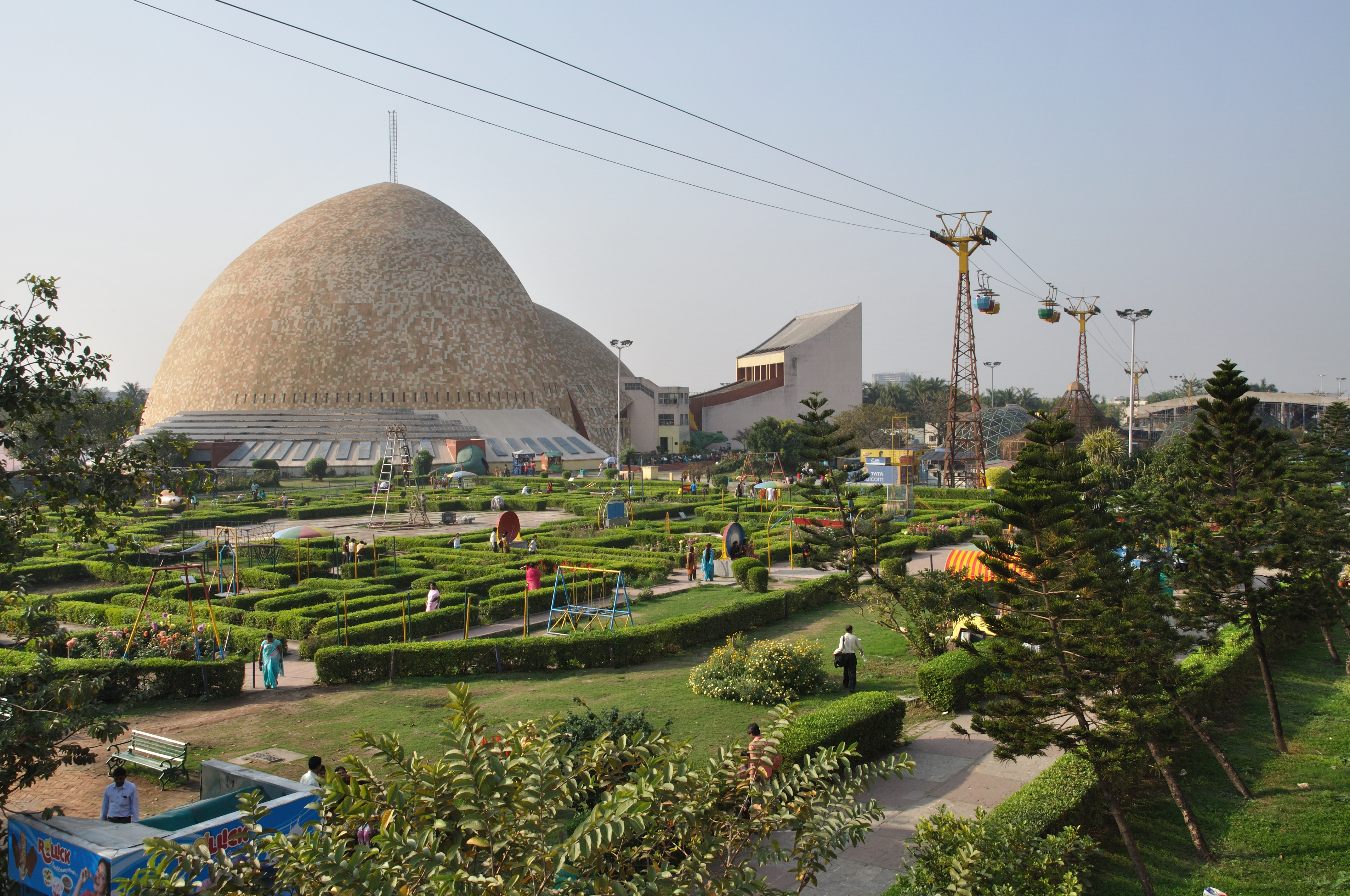 Science City is one of the most popular visitors' attraction in Kolkata